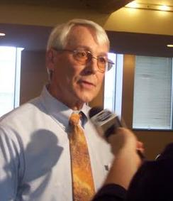 Steve Mantis is interviewed by media on June 30, 2011 after winning the nomination as the provincial New Democrat candidate in Thunder Bay-Superior North.